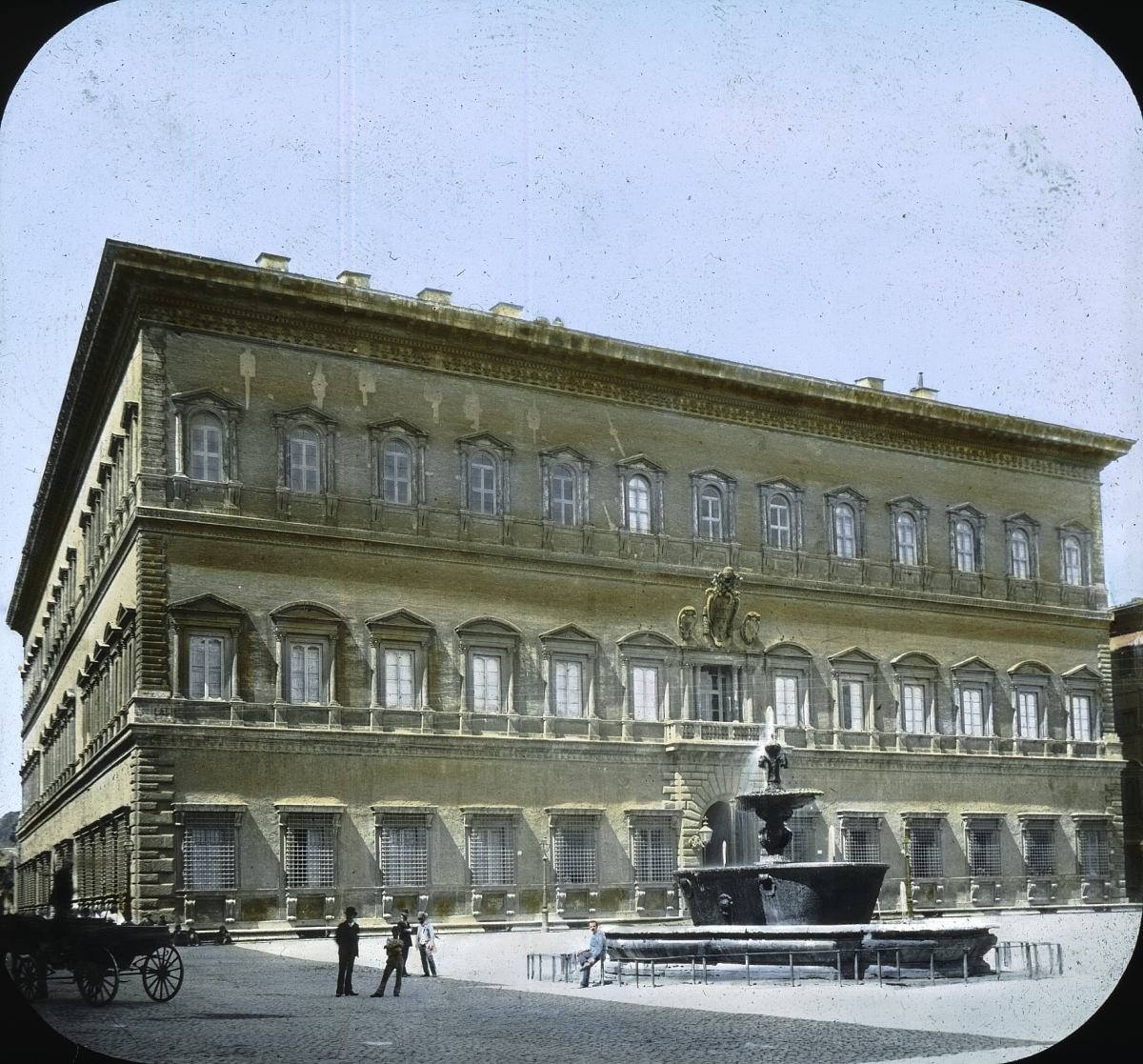 Palazzo Farnese, Rome, Italy. Rome - Palazzo Farnese, exterior. Brooklyn Museum Archives, Goodyear Archival Collection (S03_06_01_023 image 2736). Request from Brooklyn Museum: It helps us to know how our visitors work with our images, so if you use it, we'd love to know how! Drop us a line by leaving a comment here or email our archivist